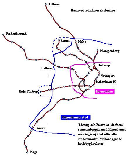 Scale map of Copenhagen S-train system incl. stations. Shows also city center and closeby boroughs and the urban area.